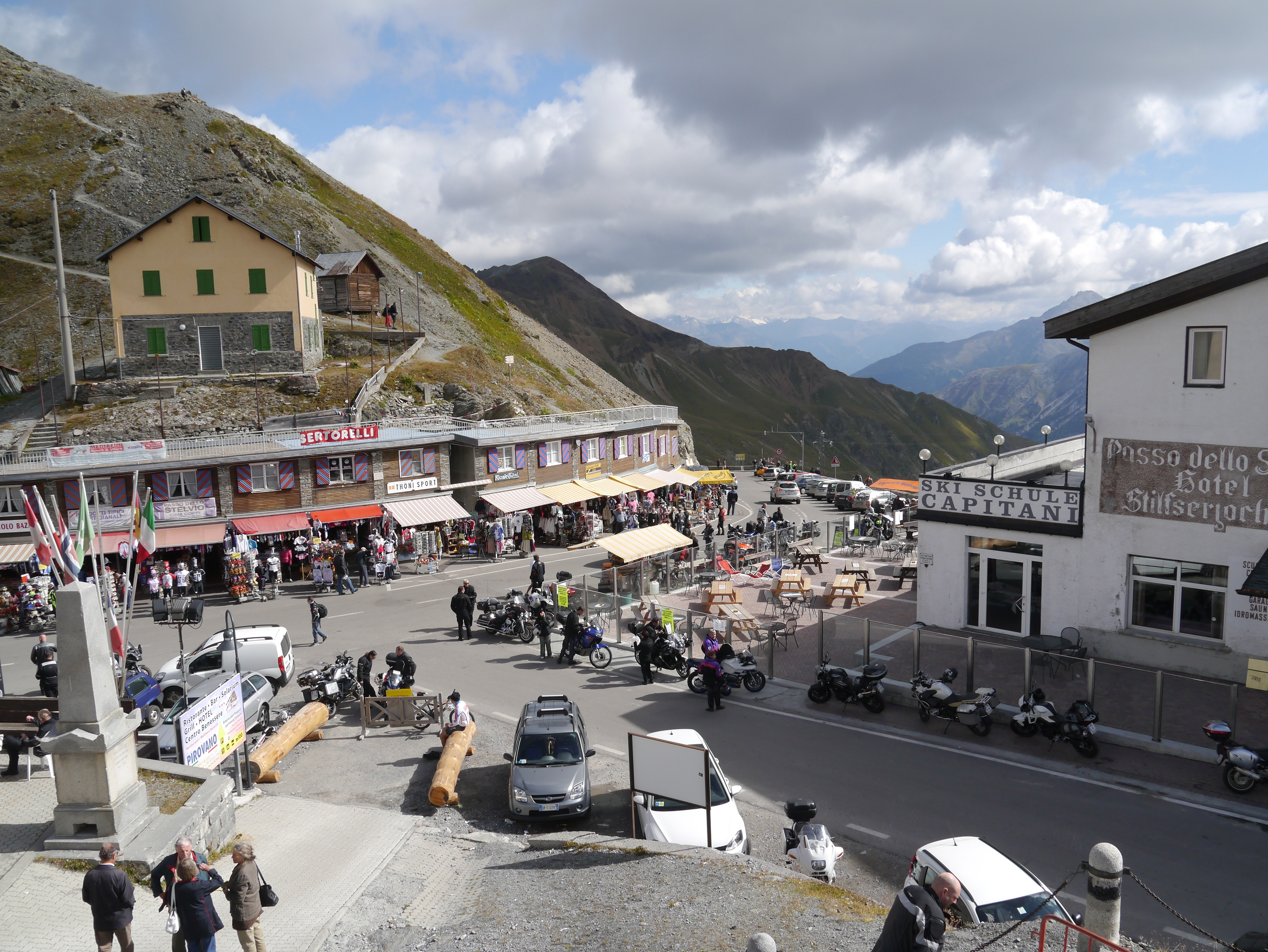 Top of Stilfser Joch/Stelvío Pass, Region of Tentino-Alto Adige/South Tyrol, Italy